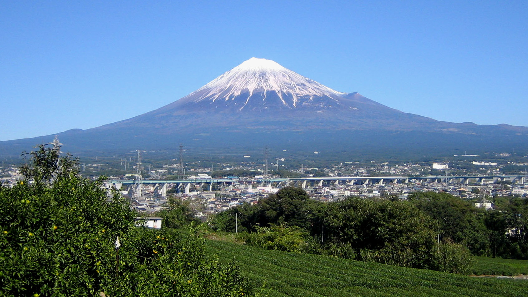 The NNW side of Mount Fuji.